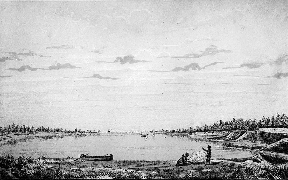 Toronto Harbour in 1793, an image from Henry Scadding's collection.